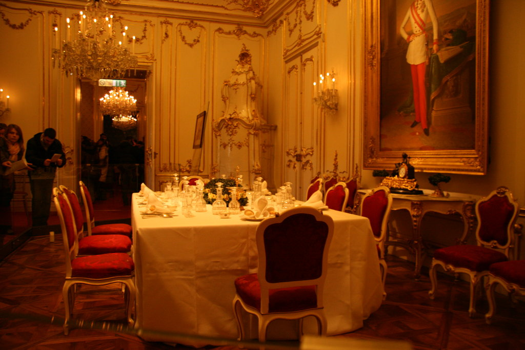 Schonbrunn - rooms 3